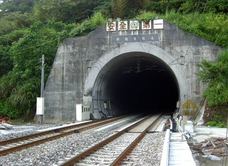 New-guanyin-tunnel